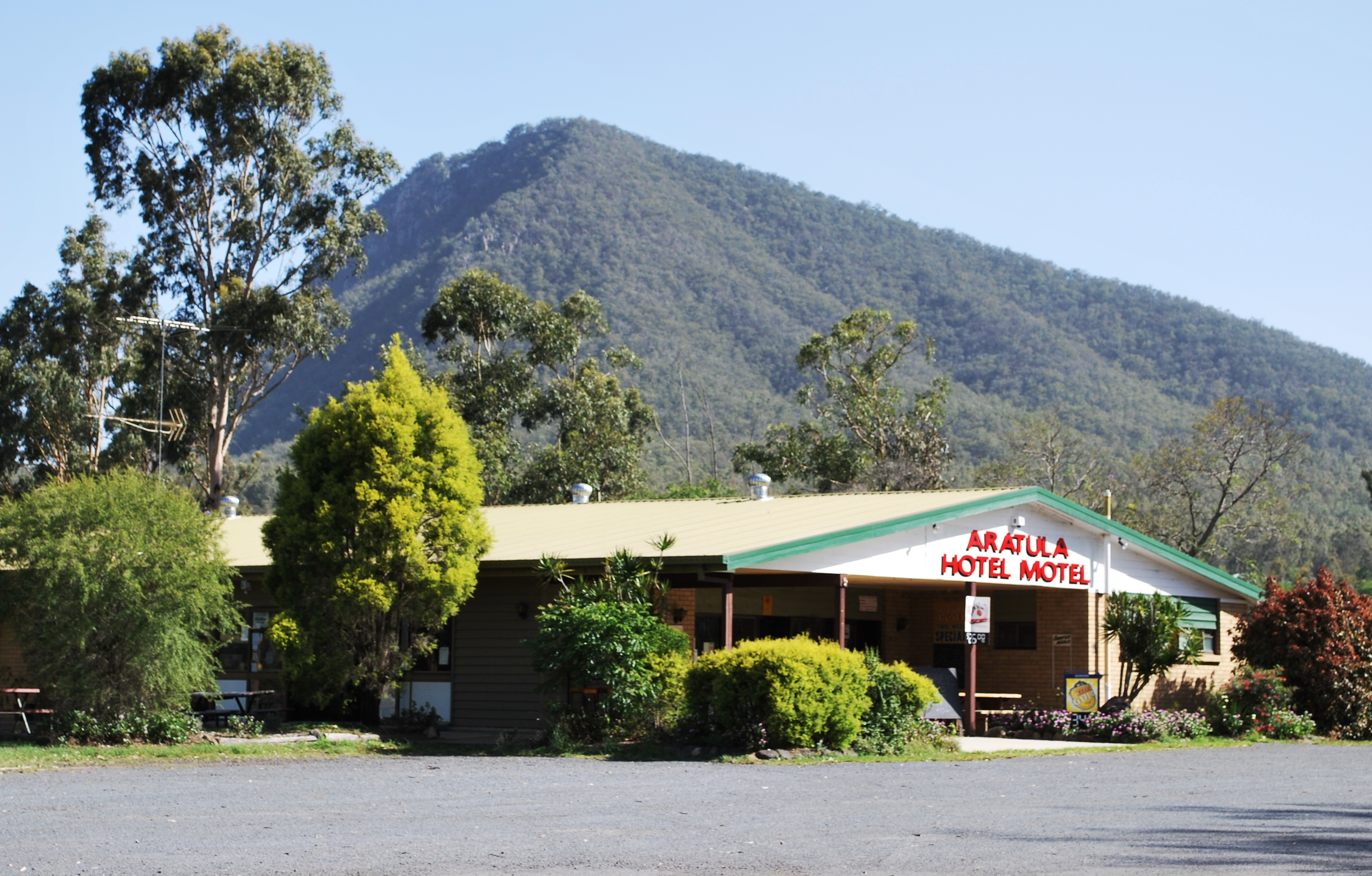 Aratula Hotel/Motel at Aratula, Queensland